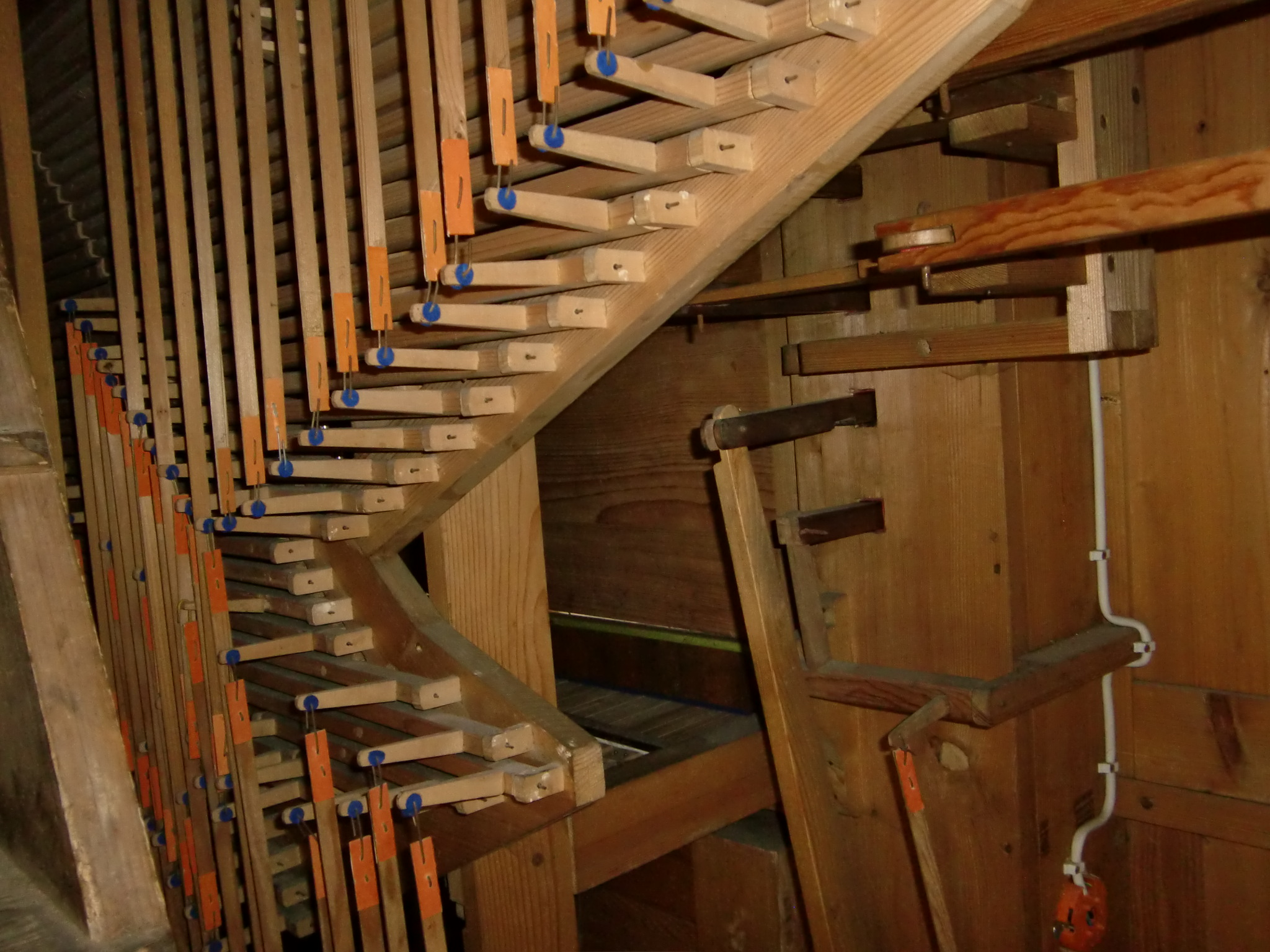 inside of an old organ near Bayreuth